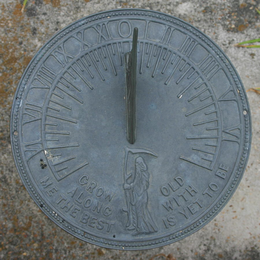 Sundial: This sundial was in the courtyard of the East Tennessee Iris Society.